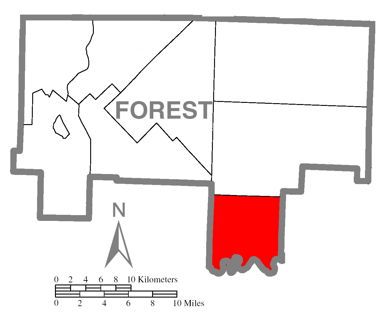 A map of Forest County showing Barnett Township, Pennsylvania (alternate) highlighted on the map.